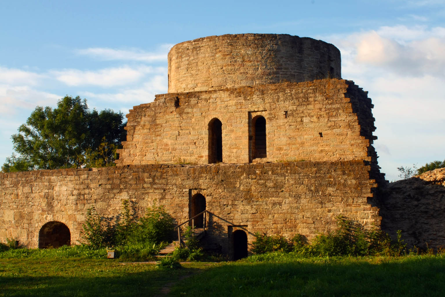 Koporye fortress